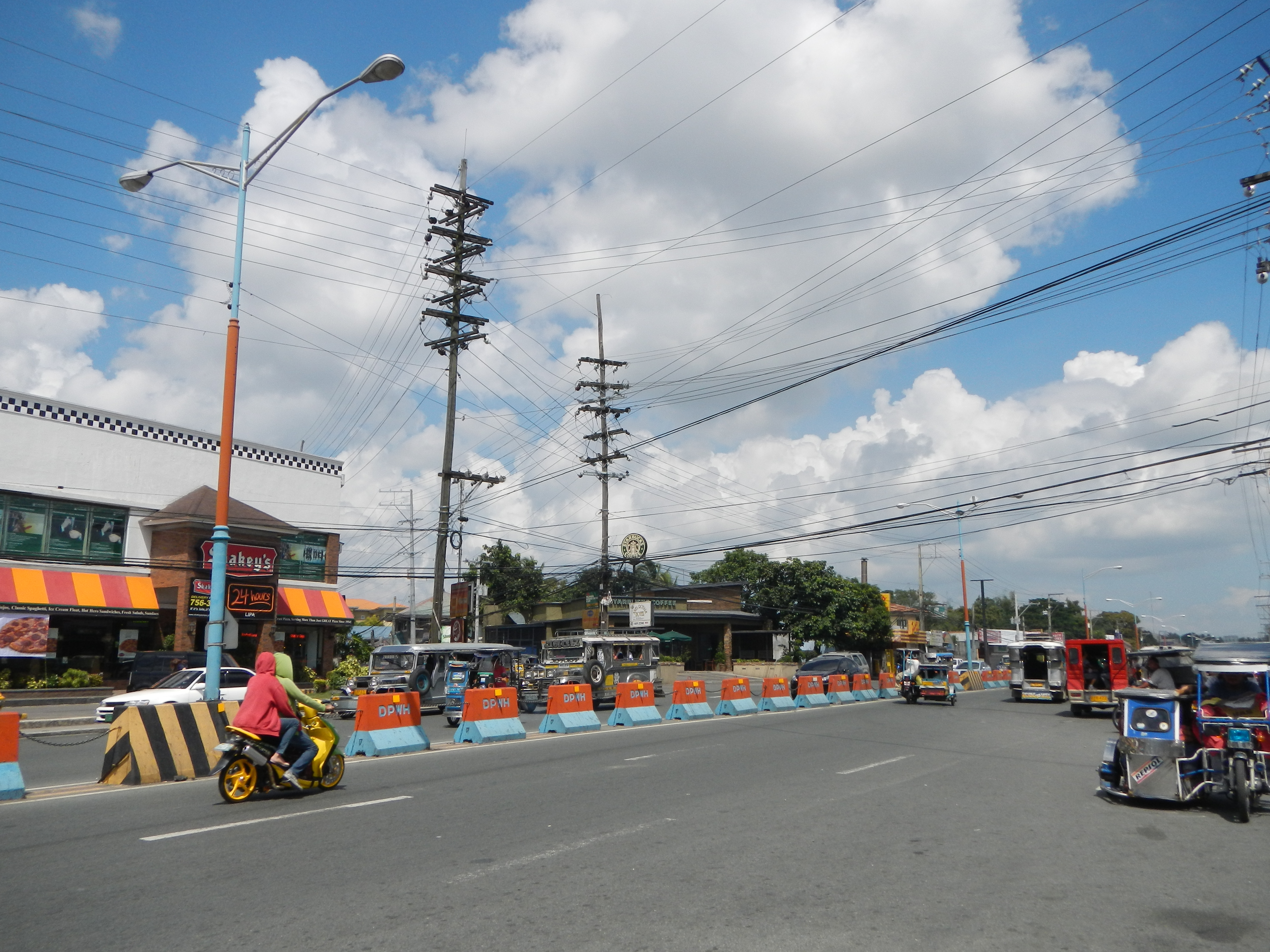 Upload Wizard photos -- (general description, 3-dimension angle by angle photography of this town, church & landmarks) -- a) Hyundai Motor Company[1] [2] EDSA, Balintawak, Quezon City, 1106, Philippines, [3], b) McDonald's[4] Pasay City, c) Lipa City[5], d) The Church of Jesus Christ of Latter-day Saints in the Philippines [6], in Lipa City, and e) Lemery, Batangas[7] Highway, and its Midwest Park Subdivision.